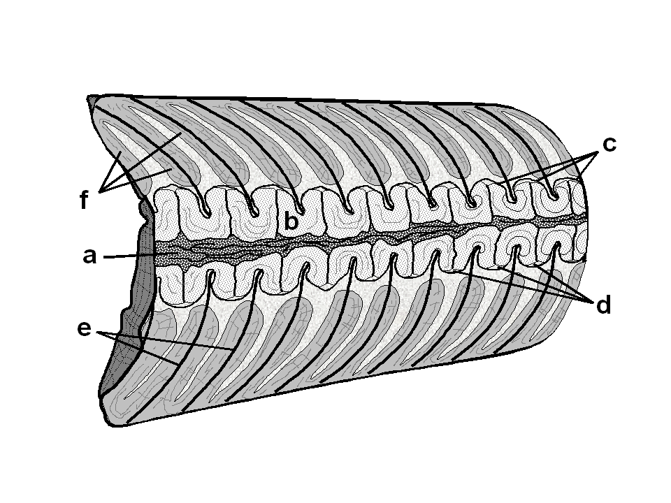 reproduction of a polished section of Rayonnoceras specimen (Nautiloidea, Actinocerida); a)internal siphuncle space; b)annulosiphonate deposits; c) connective rings; d) perispatium; e) septa with cyrtocoanitic septal necks; f) endocameral deposits